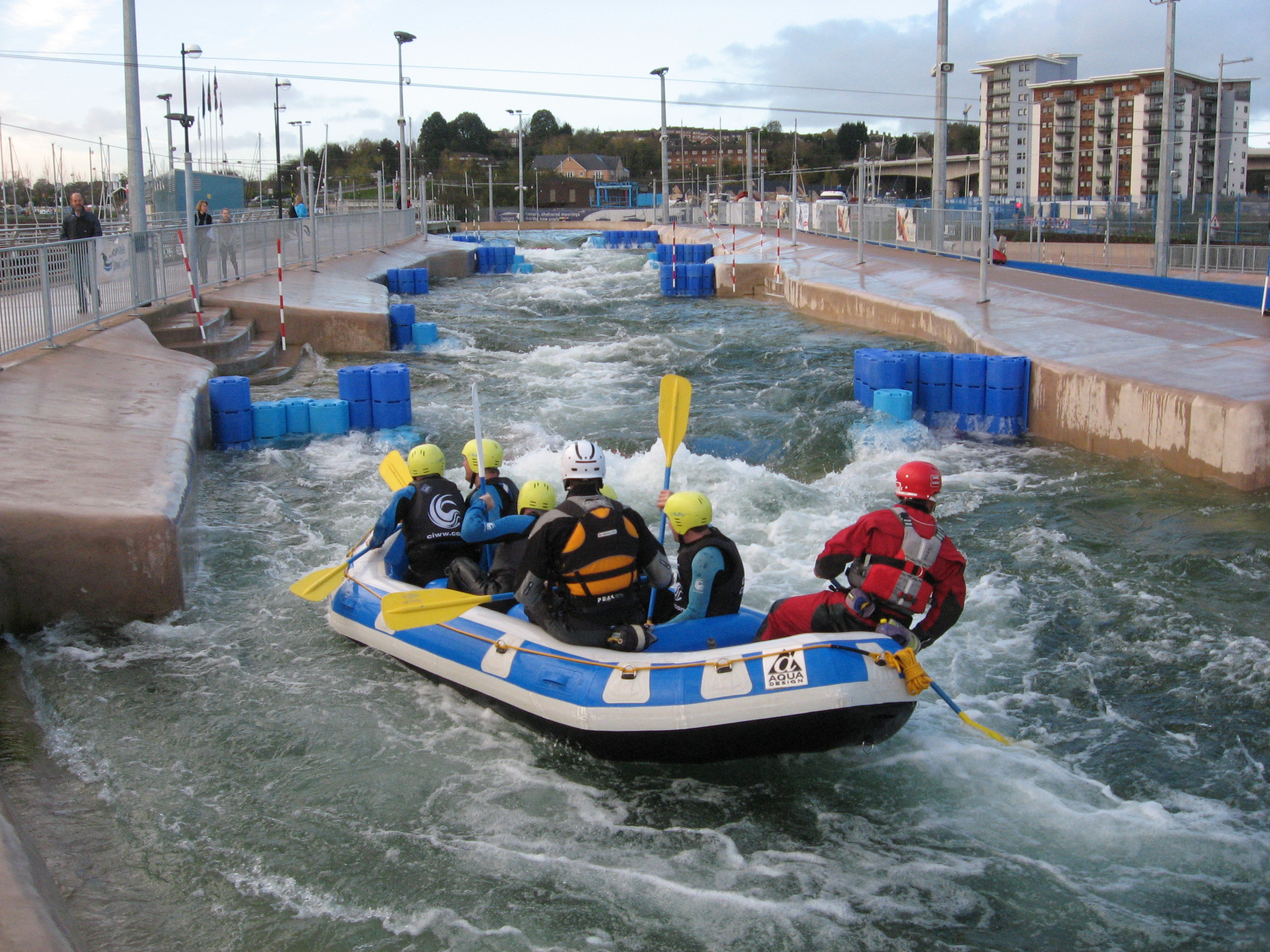 Cardiff International Whitewater Centre